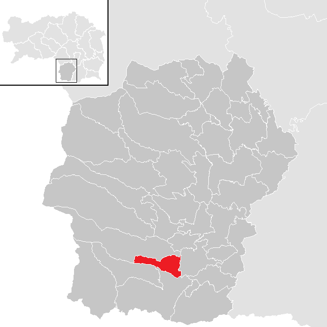 District Deutschlandsberg, Styria, Austria